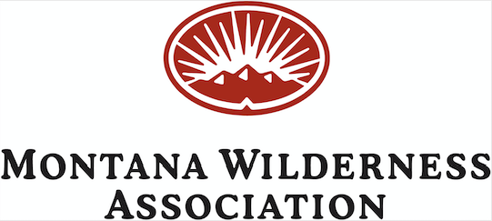 This is Montana Wilderness Association's logo as of 2019.